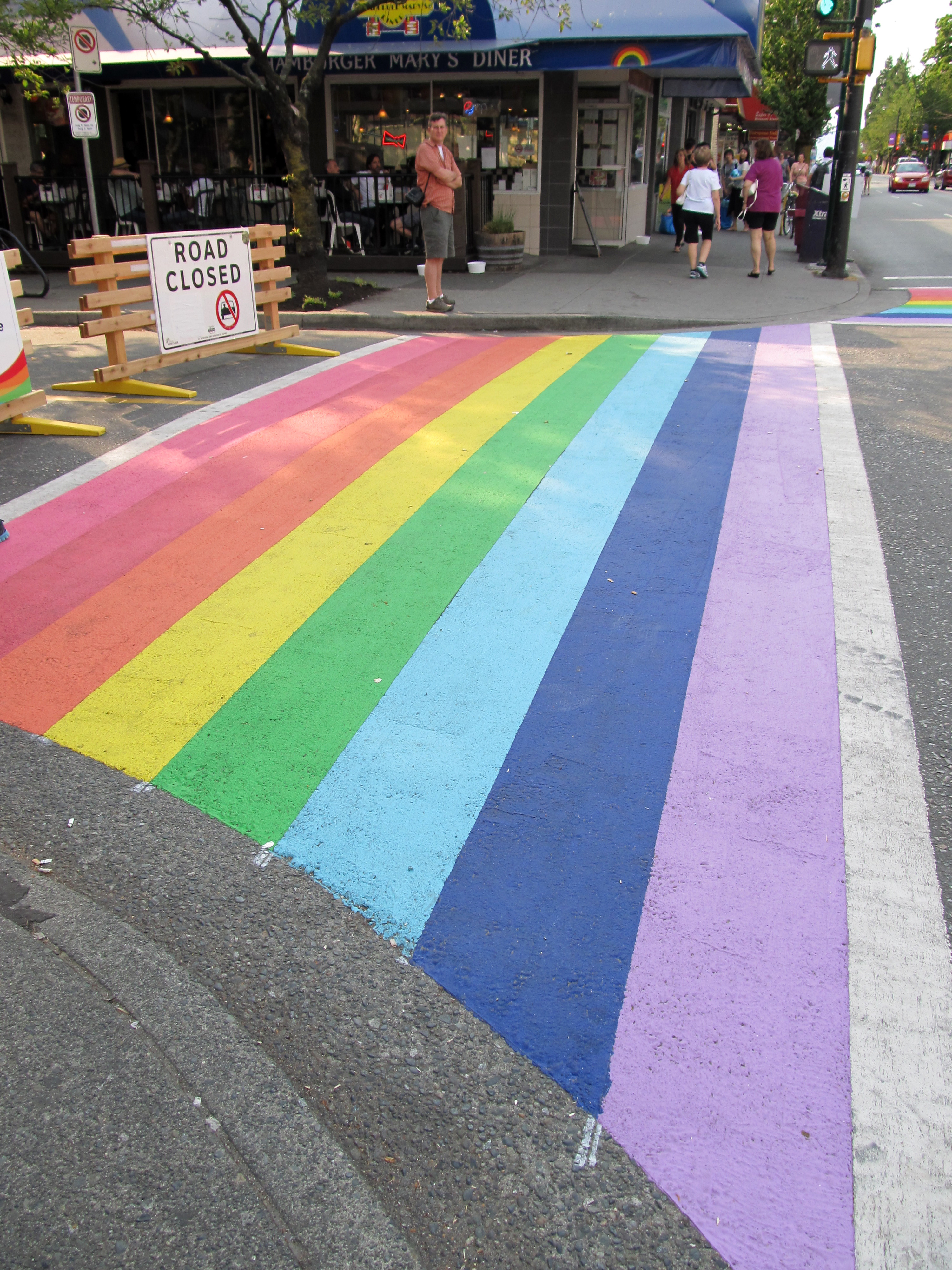 This is Canada's first rainbow-coloured crosswalk, at the corner of Davie and Bute Streets. It was unveiled on July 30, 2013, just before pride celebrations. Rainbow Crosswalk, Davie Village, Vancouver, BC